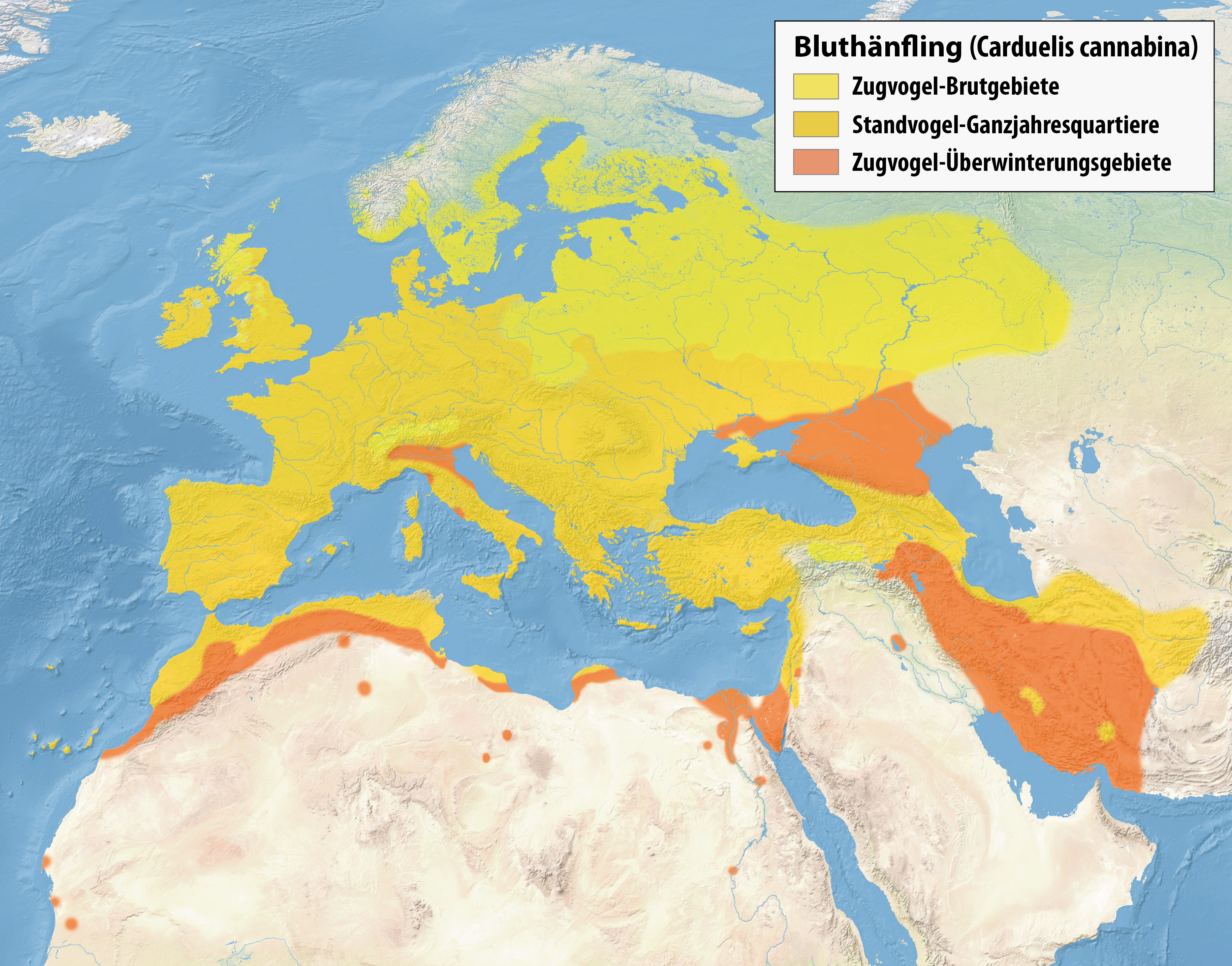 Distribution map of the Common Linnet (Carduelis cannabina)